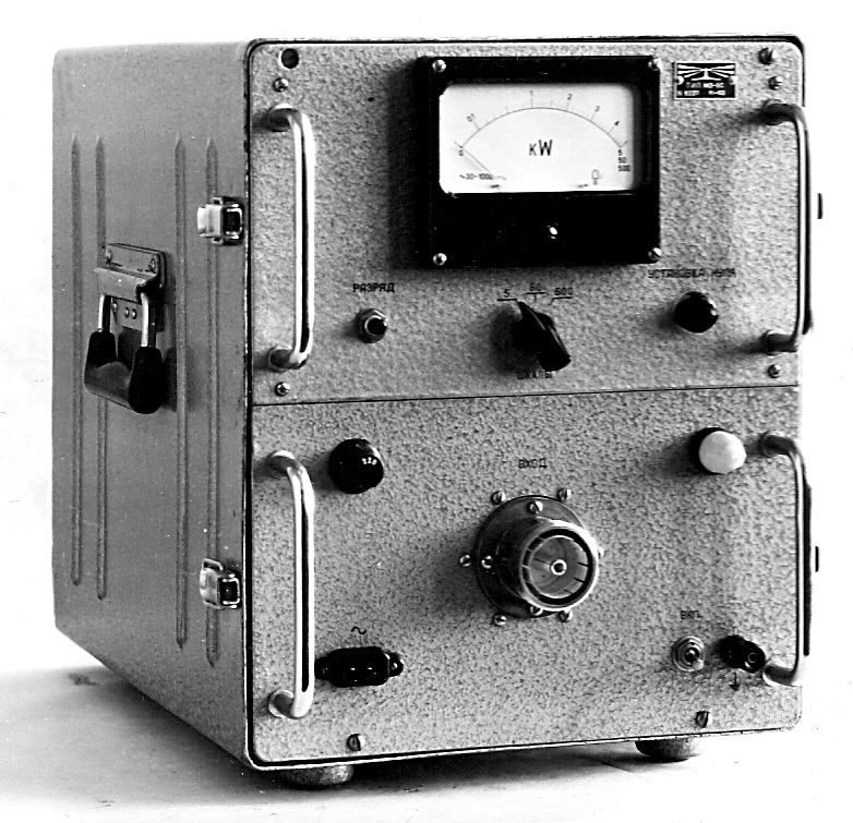 Photograph of an M3-5C peak microwave wattmeter